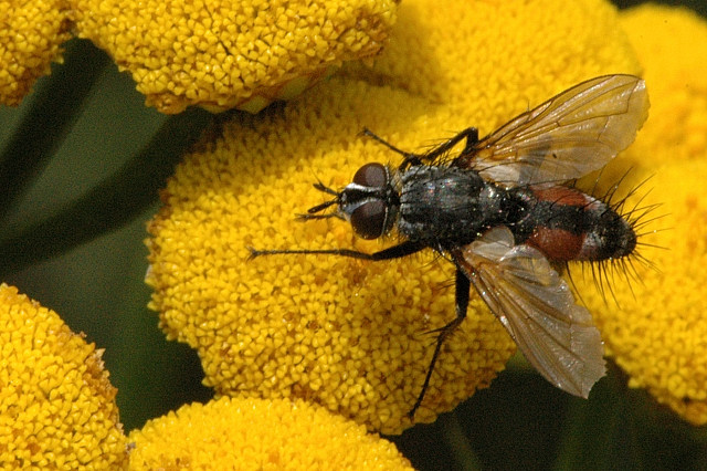 Picture taken in Commanster, Belgian High Ardennes . Species: Eriothrix rufomaculatus